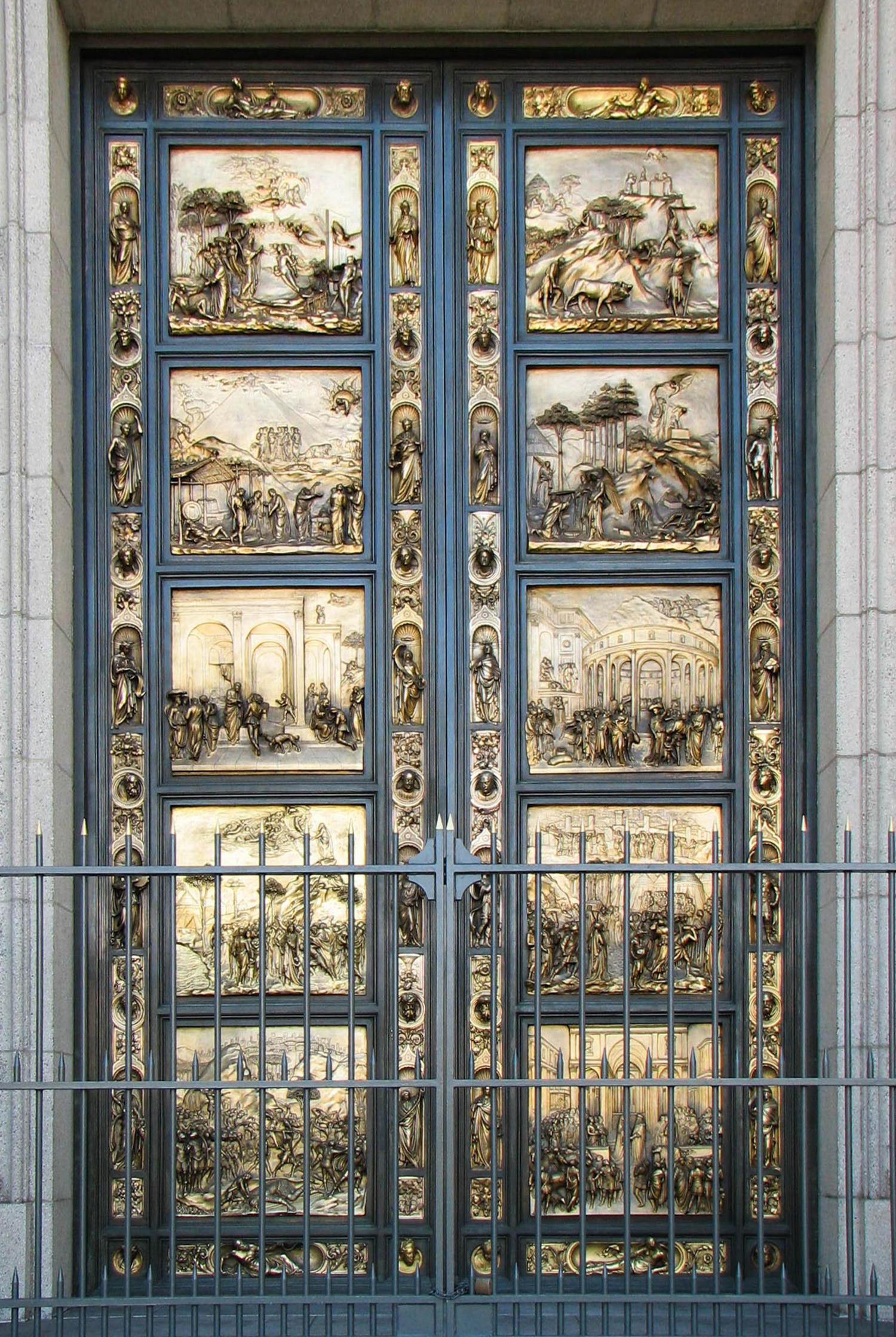 Gothic revival portal with Ghiberti doors, Grace Cathedral, San Francisco, California.